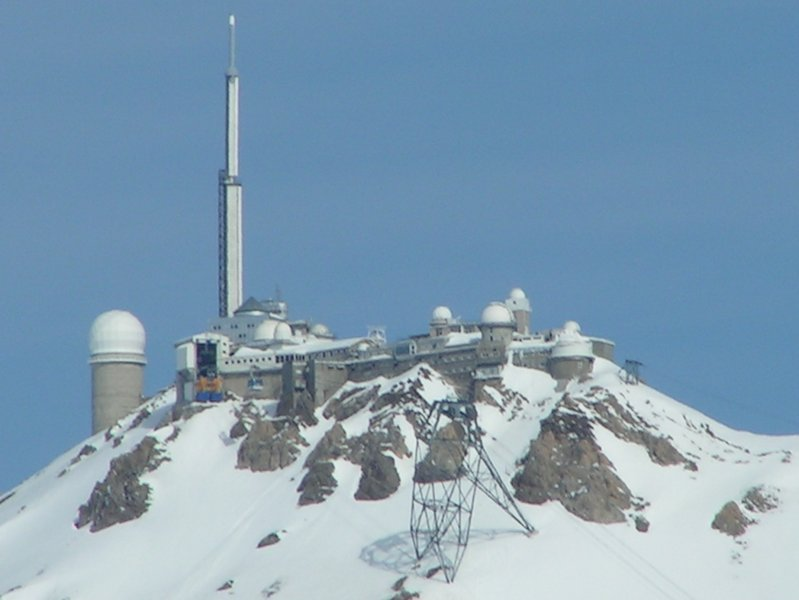 The observatory located at the mountaintop of the Pic du Midi de Bigorre, in the French Pyrénées. The photo was taken at the top of the Pourteilh gondola, in La Mongie ski resort.